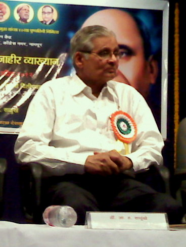 Dr. A. H. Salunkhe at Dhanwate National College, Nagpur for Dr. Panjabrao Deshmukh death anniversary on April 10, 2012.